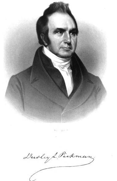 Dudley Leavitt Pickman (1779–1846) , Salem, Massachusetts merchant, legislator and philanthropist. From The History of Essex County, Massachusetts: with Biographical Sketches of Many of Its Pioneers and Prominent Men, Vol. 1, J. W. Lewis & Co., 1888